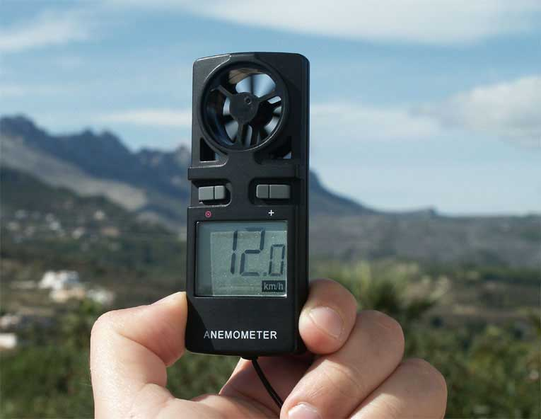 Pocket anemometer